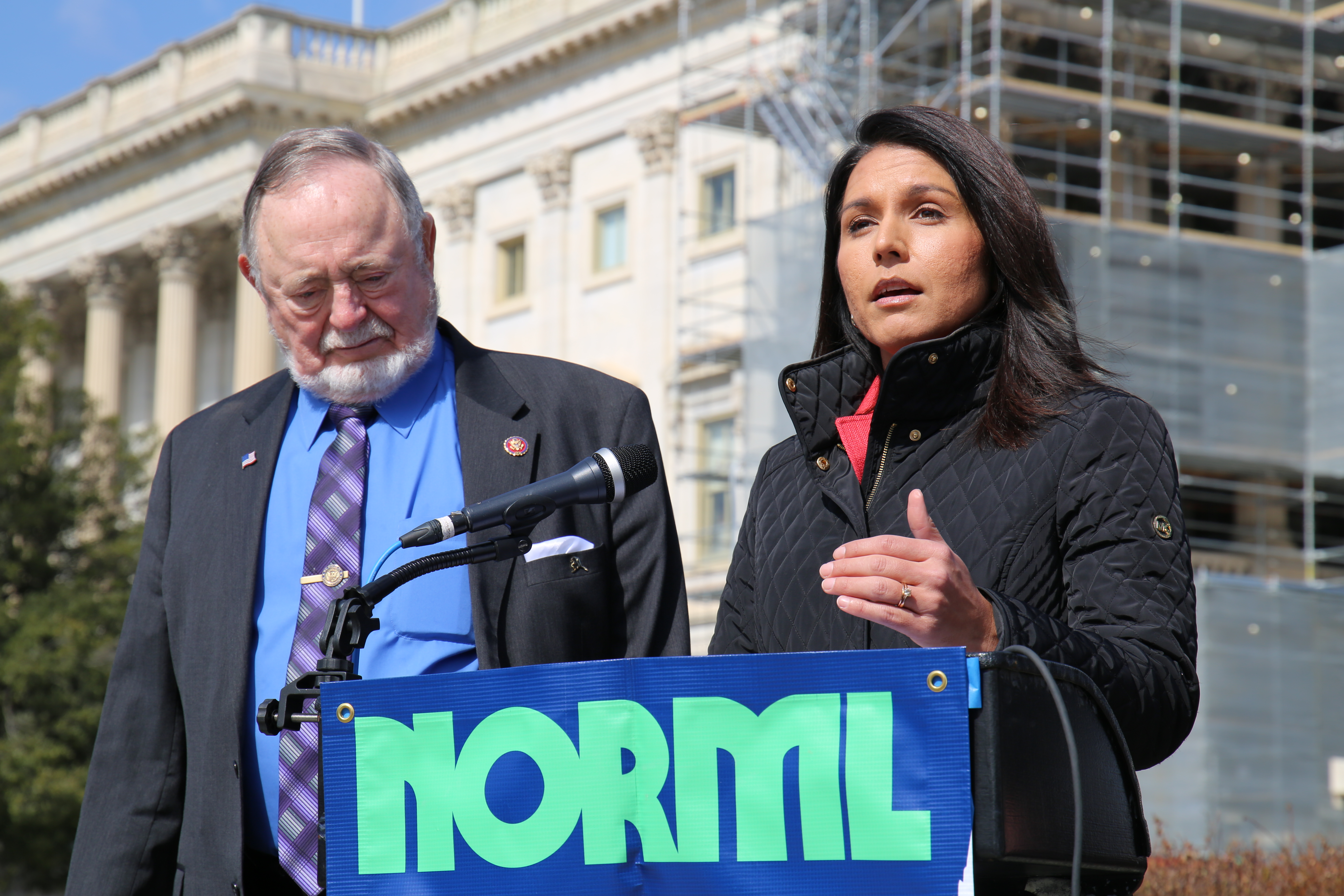 Reps. Tulsi Gabbard and Don Young speak in support of the Ending Federal Marijuana Prohibition Act at a press conference hosted by NORML